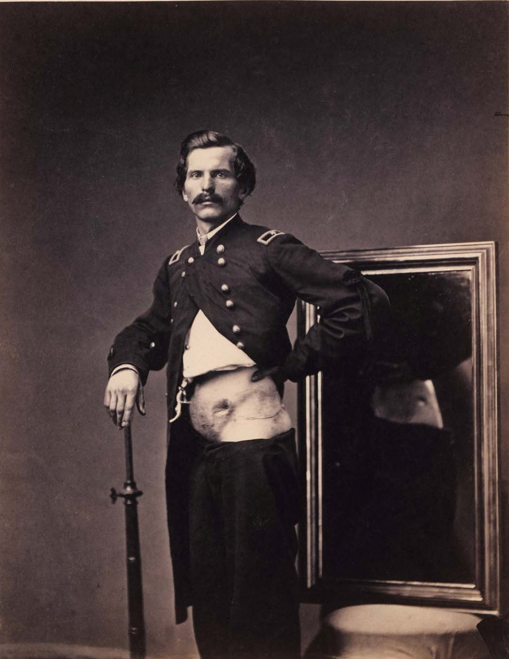 Major H. A. Barnum, Recovery After a Penetrating Gunshot Wound of the Abdomen with Perforation of the Left Ilium, a photograph by U.S. Army medical photographer William Bell (1830–1910).